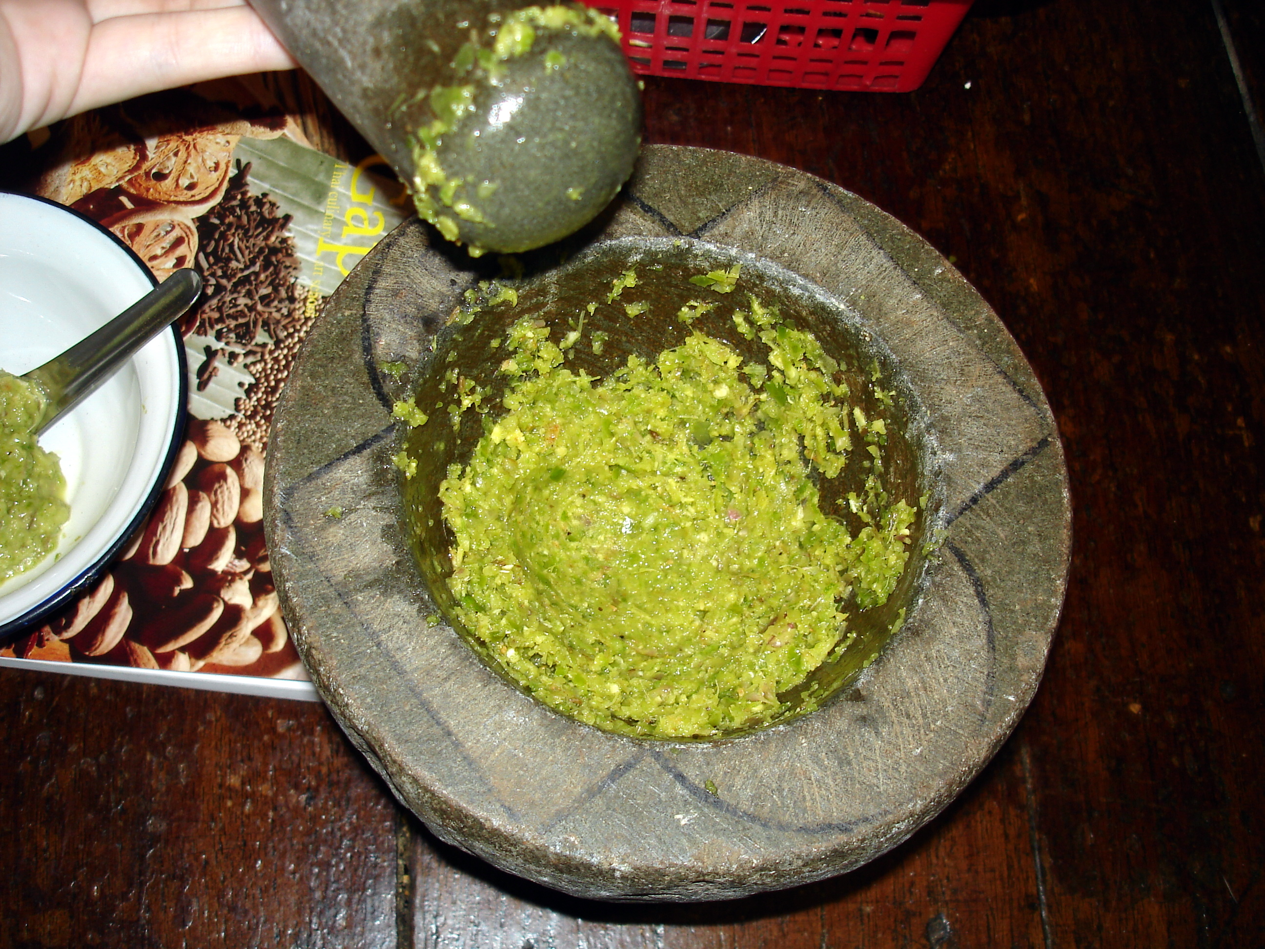 Thai green curry paste, made from fresh ingredients